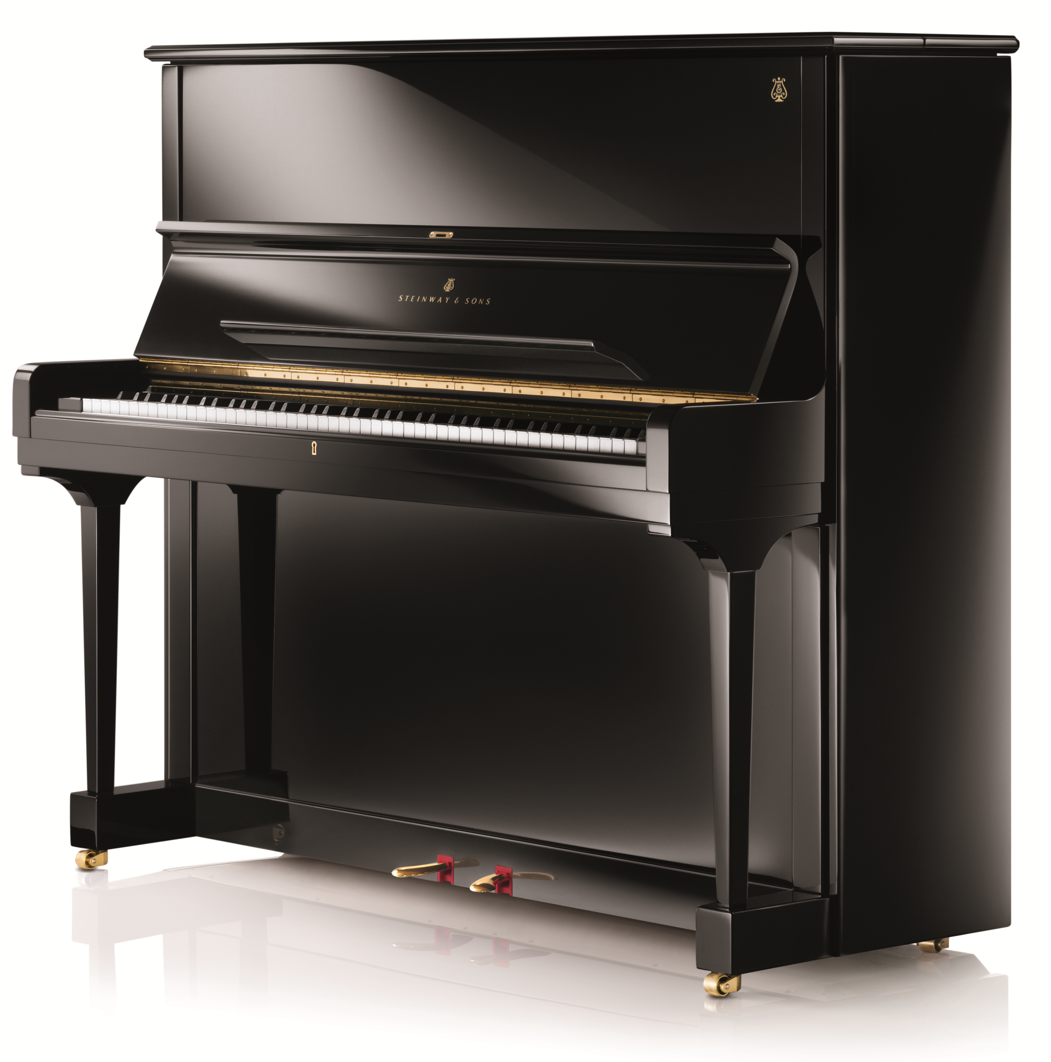 Steinway & Sons upright piano in high polish polyester finish, model K-132 (height: 132 cm / 52 in, width: 152.5 cm / 60 in, depth: 68 cm / 26.8 in, weight: approx. 305 kg / 670 lb), manufactured at Steinway's factory in Hamburg, Germany.